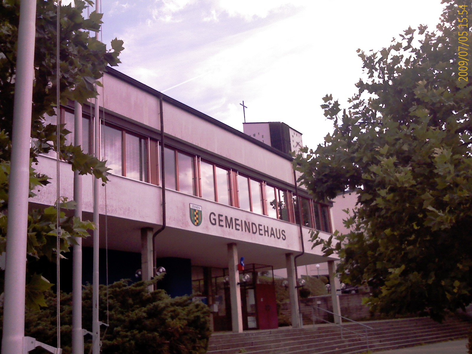 Municipal hall of Zeihen, canton of Aargau, SwitzerlandEsperanto: Komunuma domo de Zeihen, Kantono Argovio, Svislando